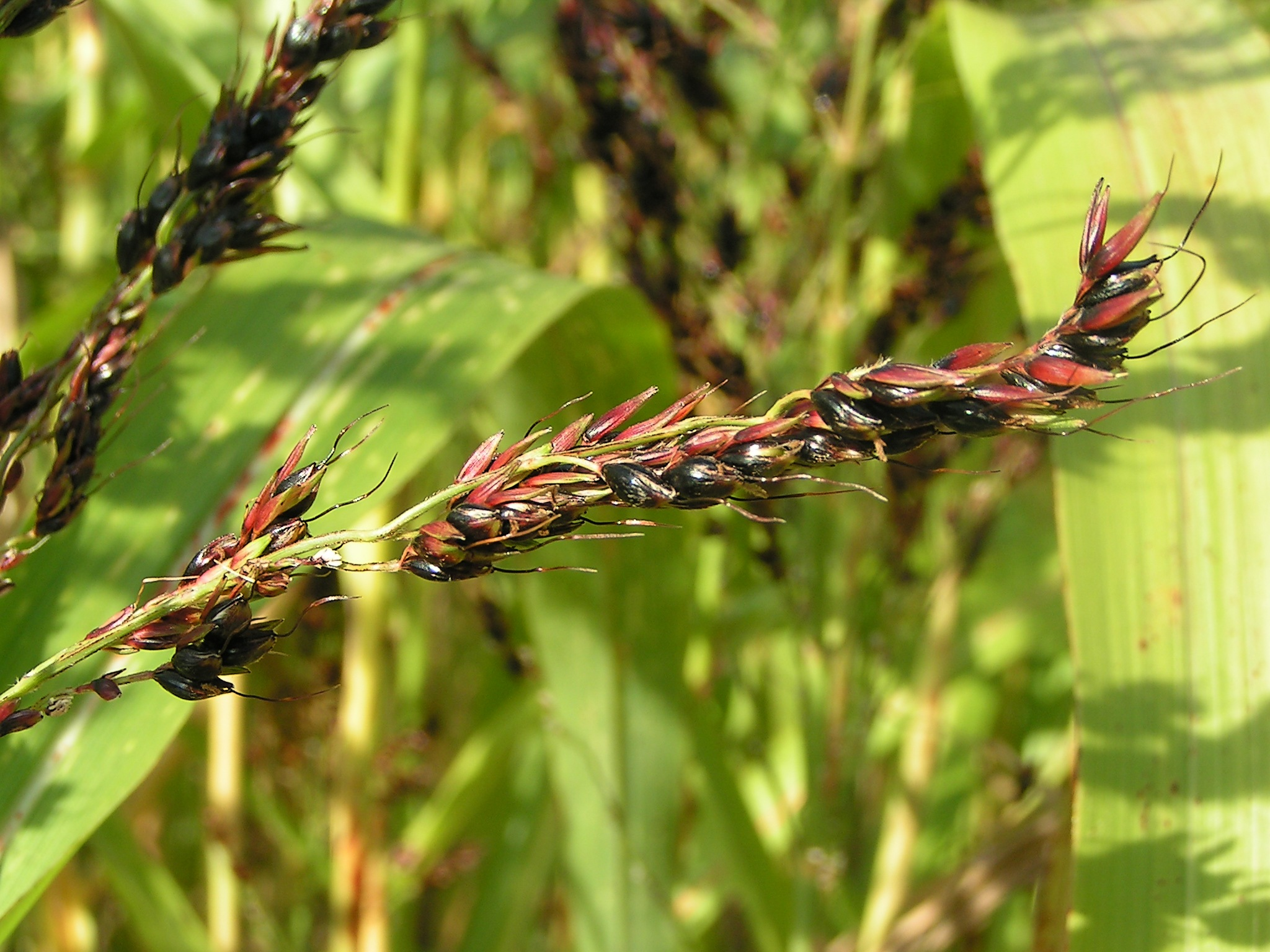 Sorghum bicolor 2005, sep 4 by pethan Botanical Gardens Utrecht University